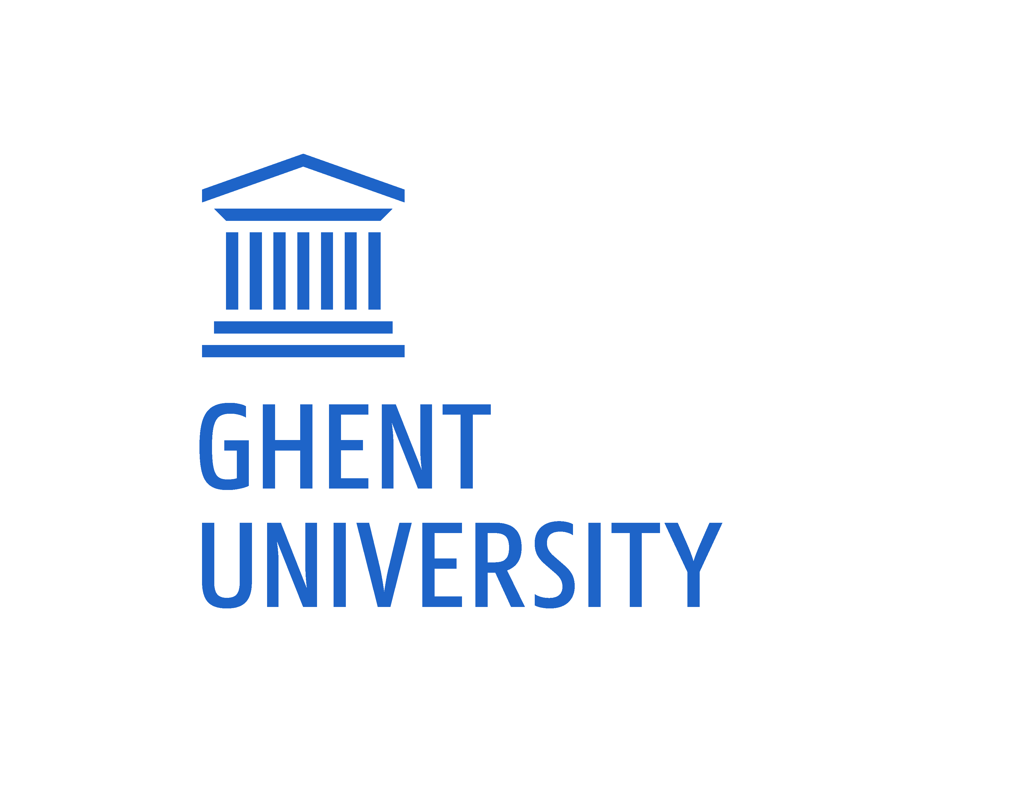 English version of the logo of Ghent University.